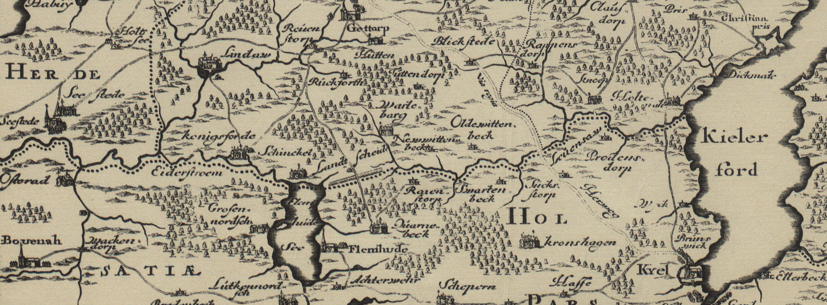 Map of the "Levensau" in the area "Dänischer Wohld" in the district "Rendsburg-Eckernförde" in the county "Schleswig-Holstein" in North-Germany